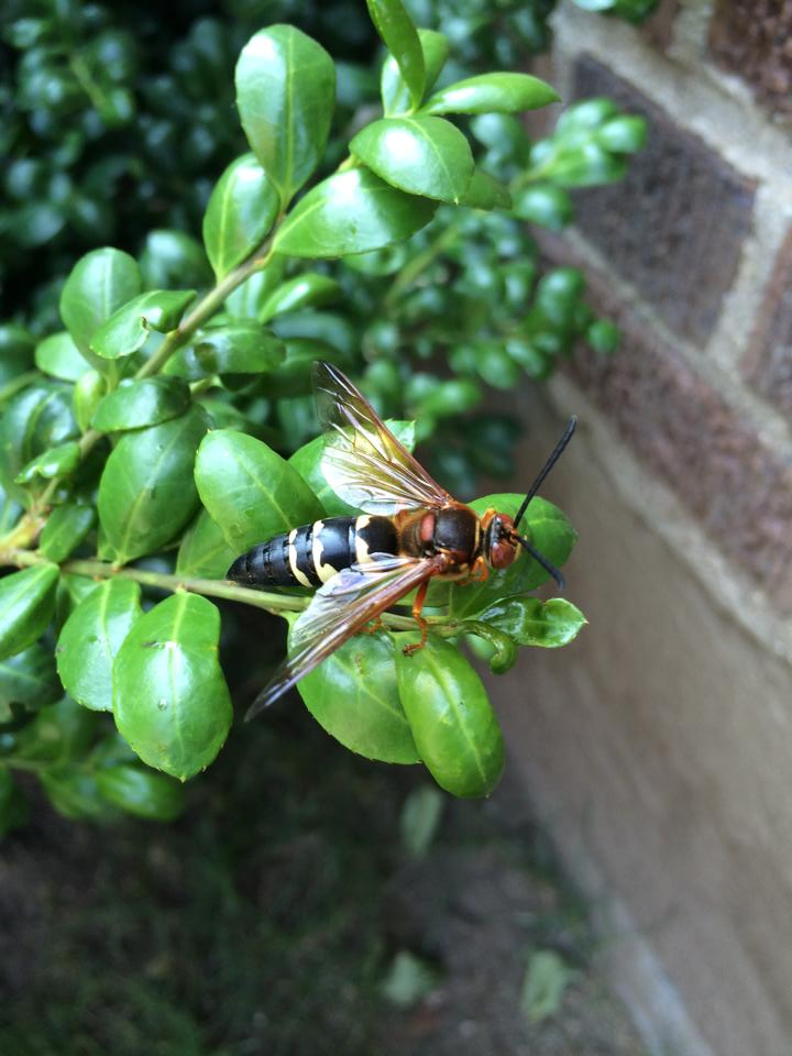 An urban-dwelling cicada killer in an apartment-front garden.